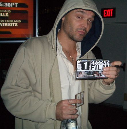 American photographer David LaChapelle holding a producer credit for The 1 Second Film.